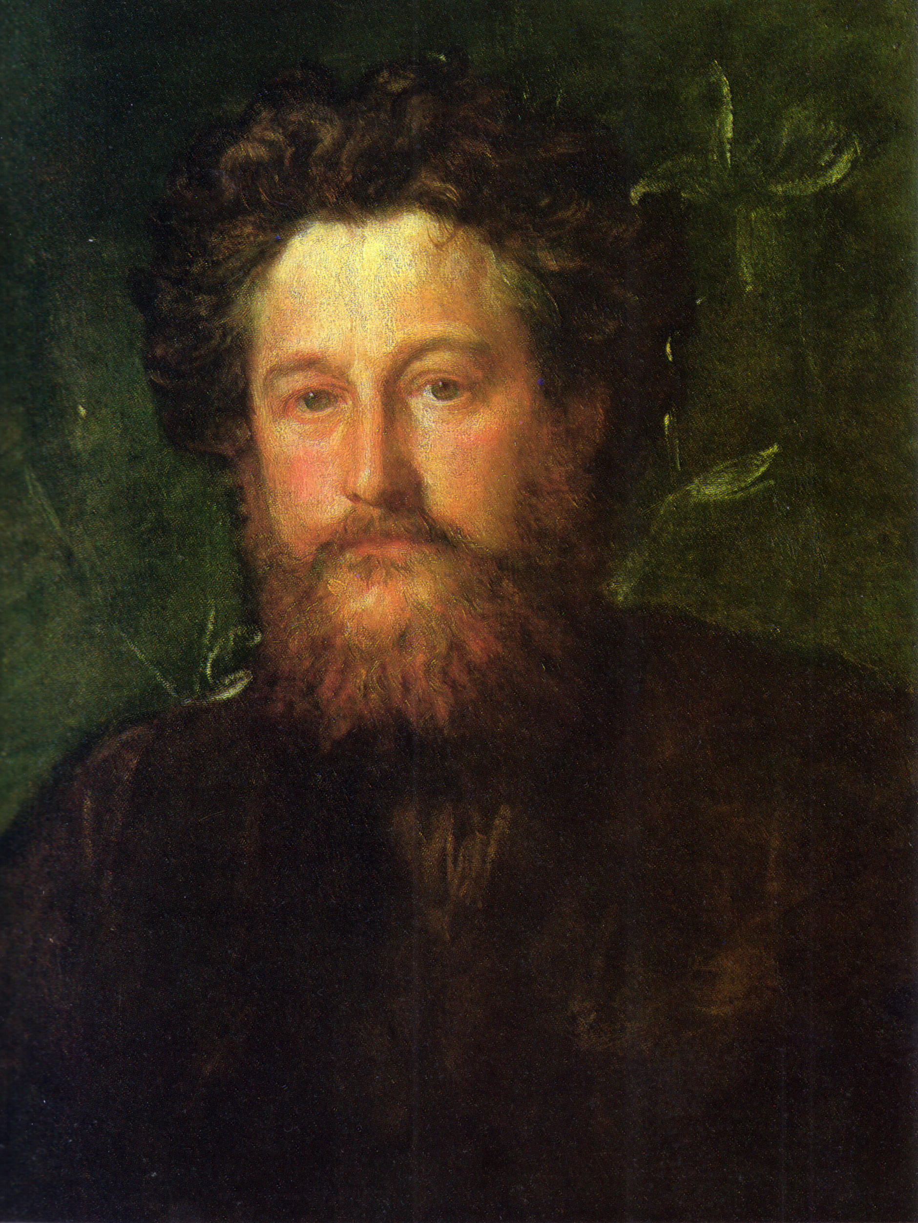 Detail of a portrait of William Morris by George Frederic Watts, oil on canvas, original 25 1/2 in. x 20 1/2 in. (648 mm x 521 mm), 1870.